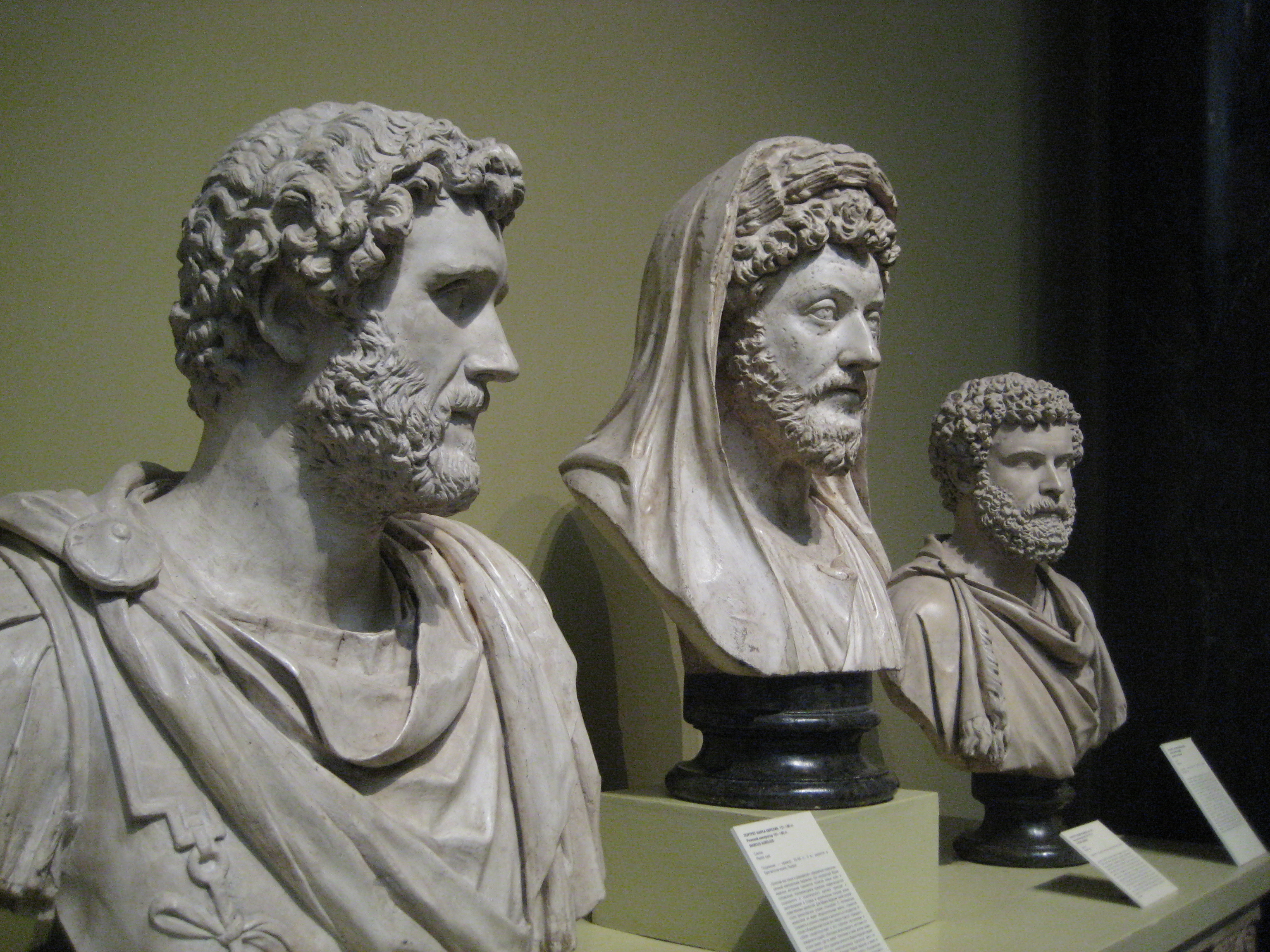 Casting in the Pushkin Museum